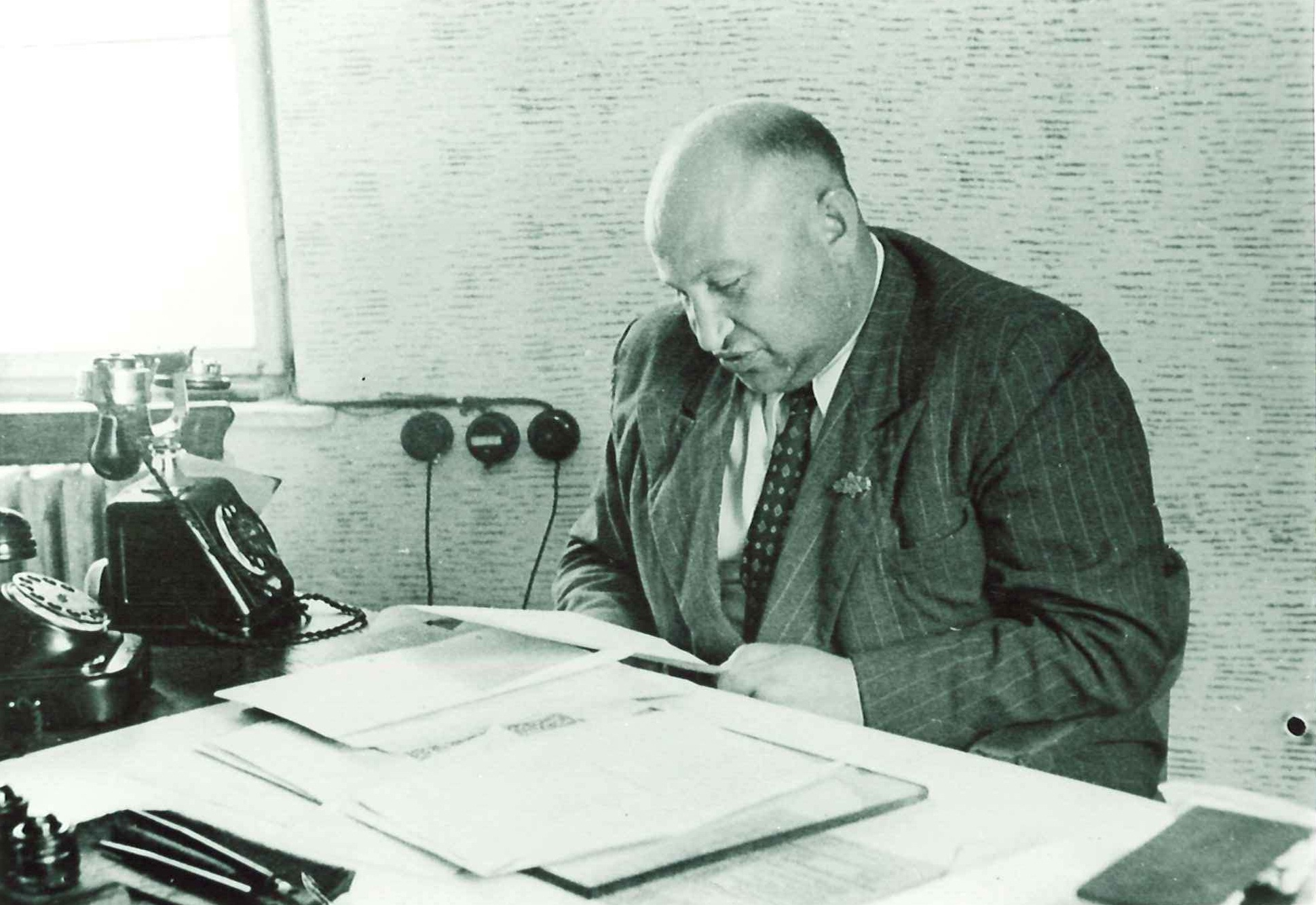 Hirsch Schwartzberg, the Berlin DP Camps Central Comittee president, is sitting at the Düppel-Center Office on the Potsdamer Chaussee in Berlin (US Zone).